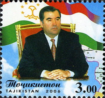 Stamps of Tajikistan